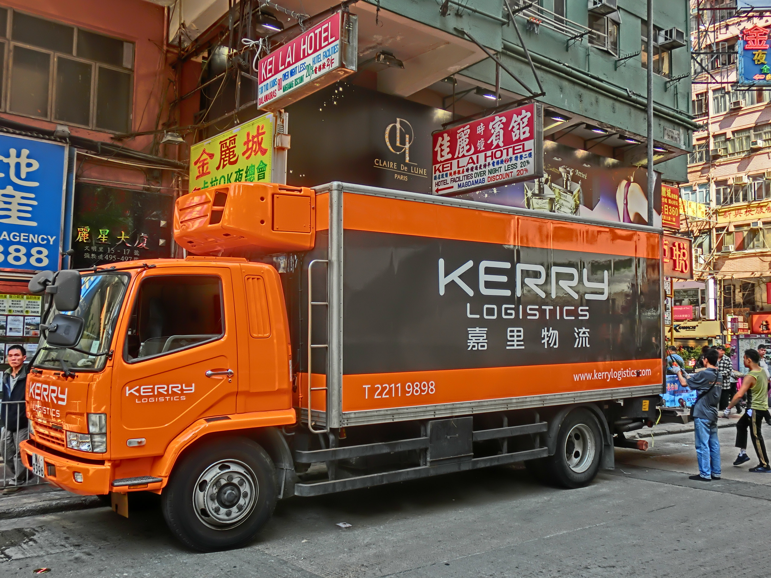 Yau Ma Tei 文明里, Man Ming Lane carpark Kerry Logistics fleet vehicle